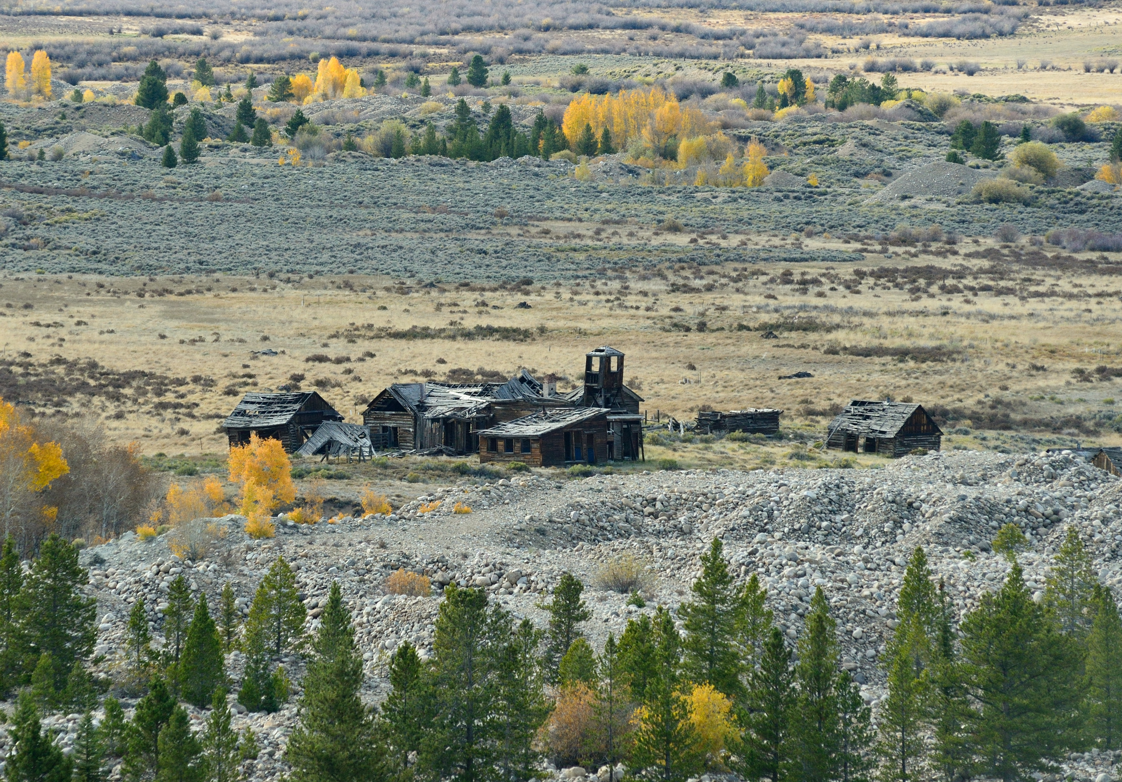 Derry Mining Camp from Lake County Road 24